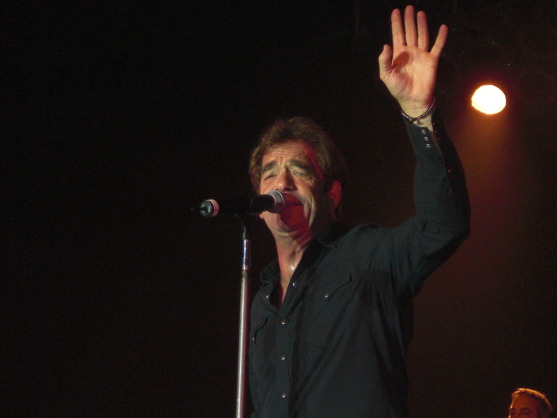 Huey Lewis performing at the Opryland Resort and Convention Center in Nashville, TN. November 11, 2008.